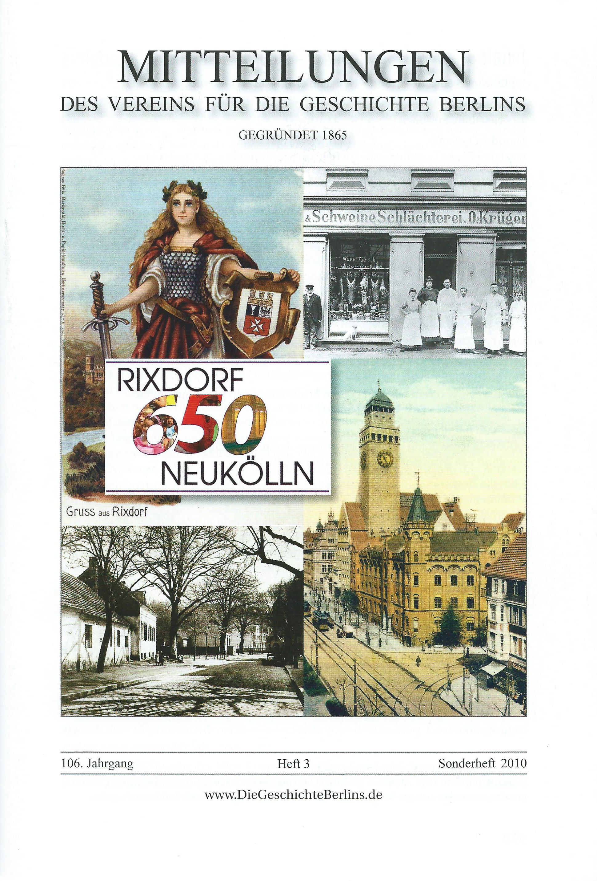 Cover of Mitteilungen des Vereins für die Geschichte Berlins. First issue showing an image in coulor on the cover from 2010 (No. 3)